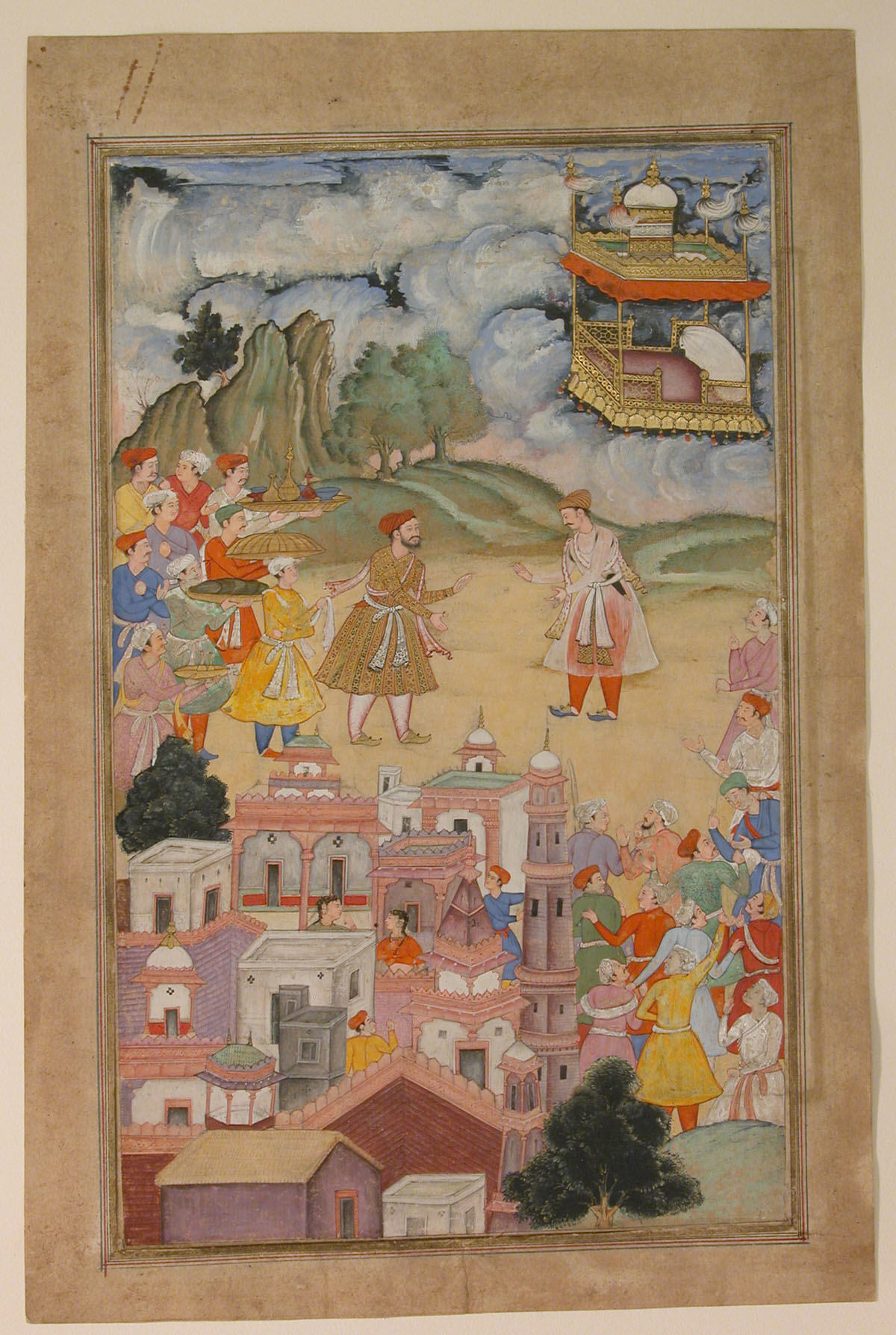 "King Sal Visits Kala Yavana", Folio from a Harivamsa , an appendix of razmnama (Legend of Hari (Krishna)), Illustrated manuscript, folio